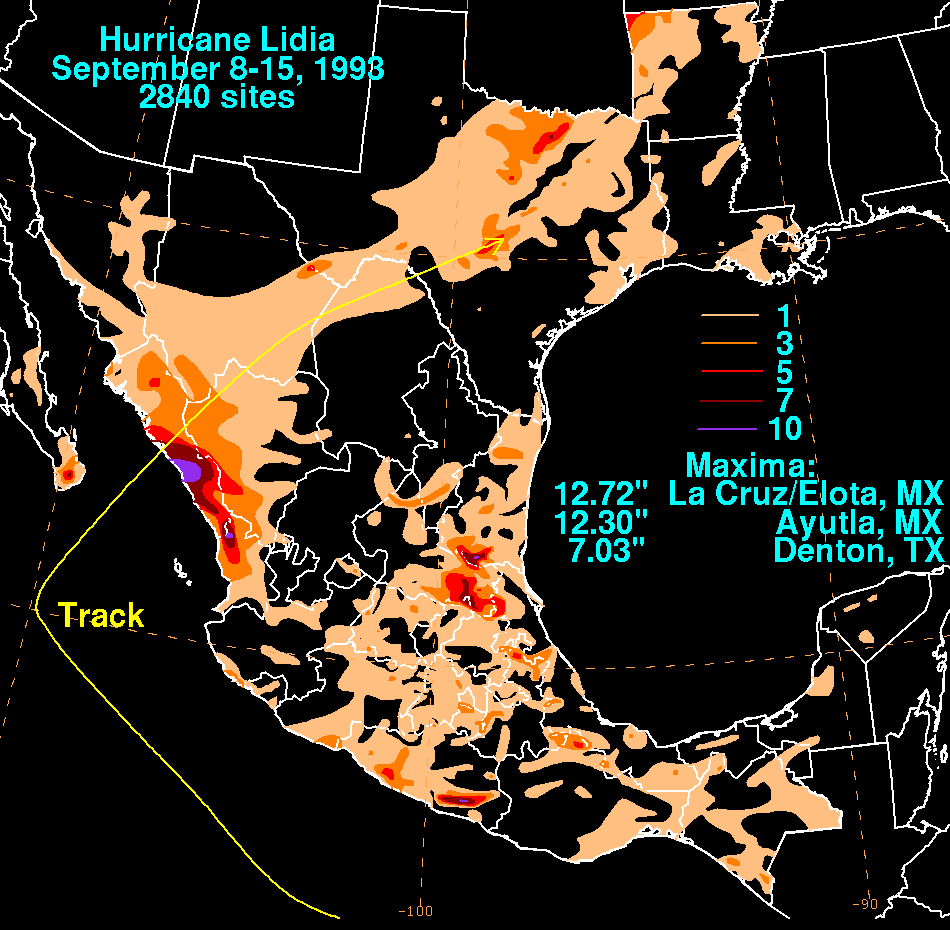 Storm total rainfall map of Hurricane Lidia during September 1993.